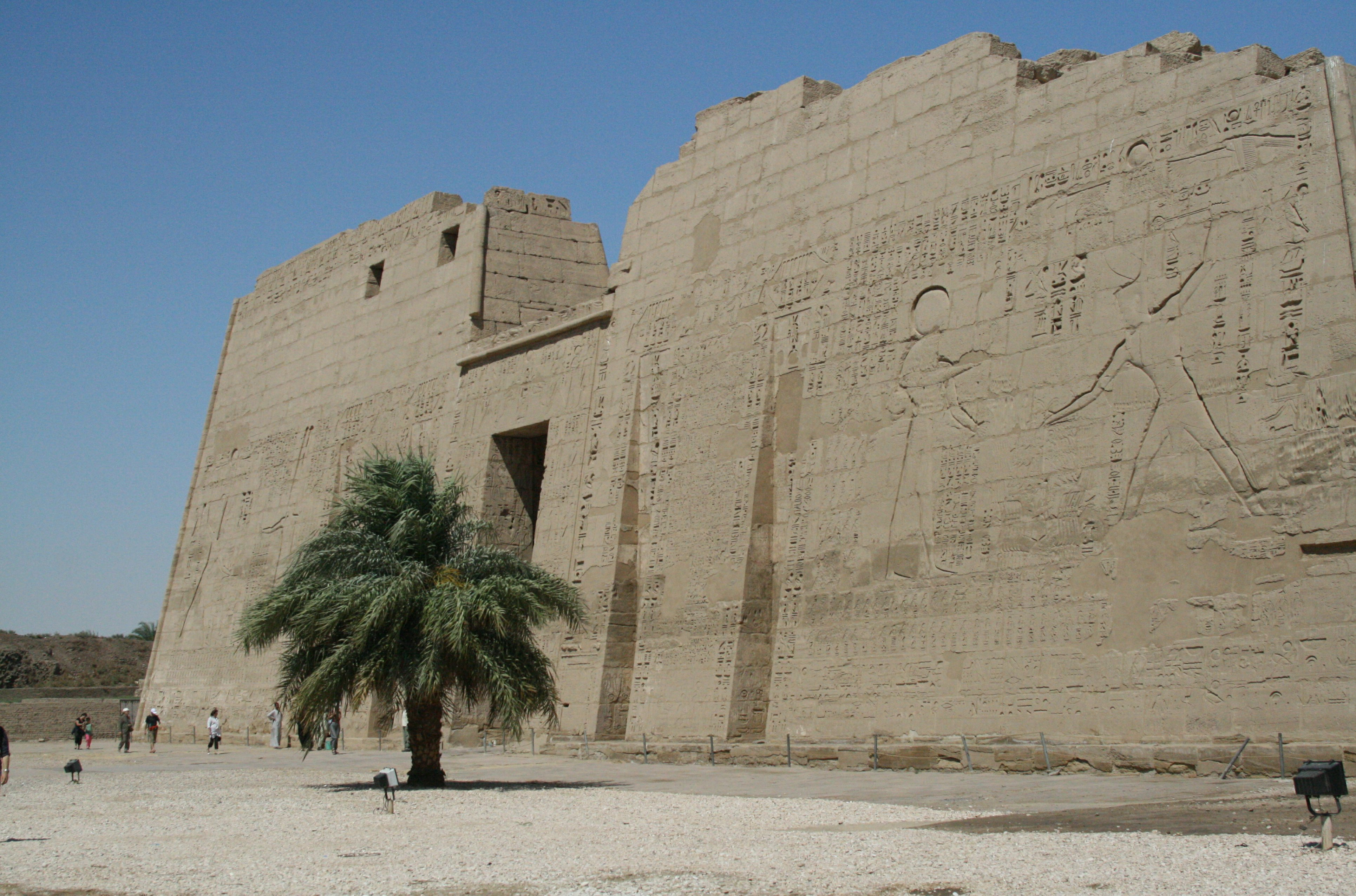 Medinet Habu - Mortuary Temple of Rameses III